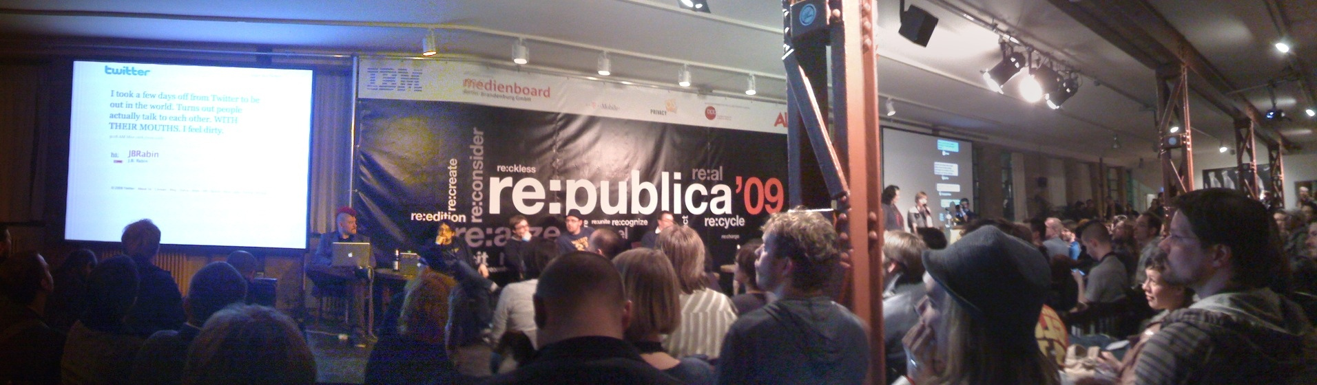 Twitter reading during the re:publica 2009 at Kalkscheune, Berlin, Germany.